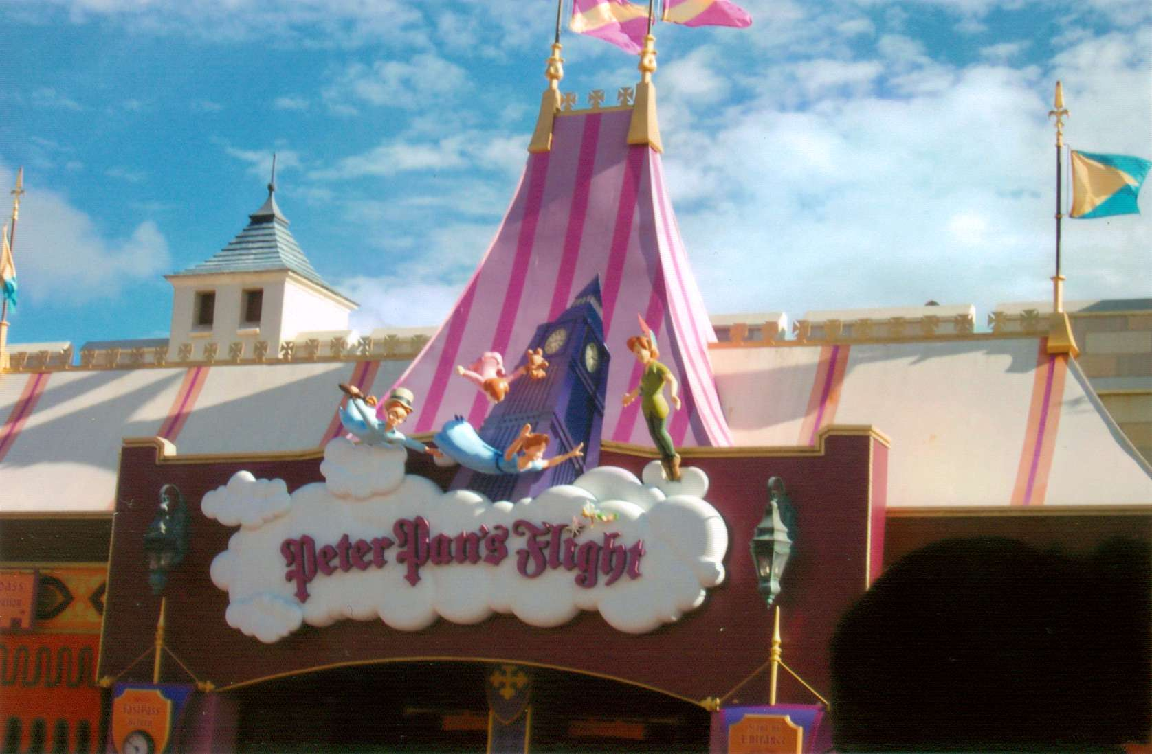 Photo of Magic Kingdom's Peter Pan's Flight in WDW.